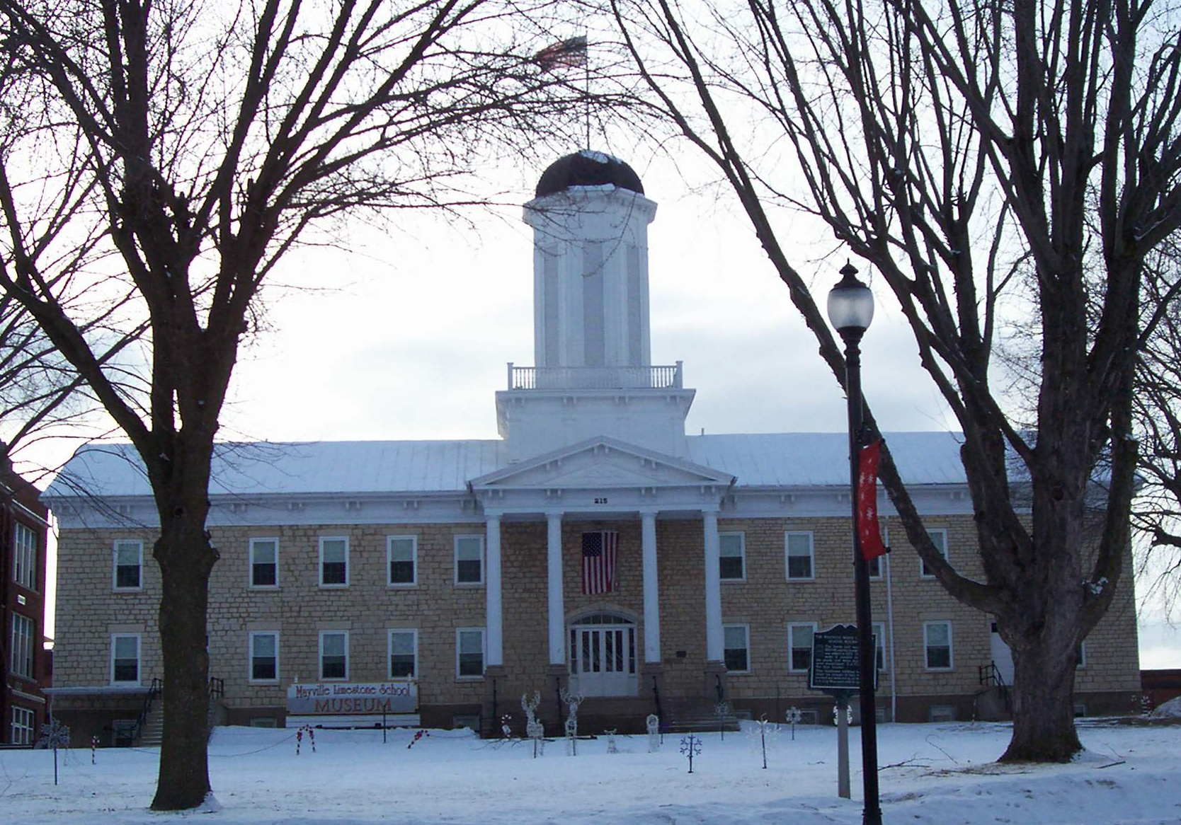 The White Limestone School in Mayville, Wisconsin on Wisconsin Highway 28 / Wisconsin Highway 67, listed on the National Register of Historic Places.